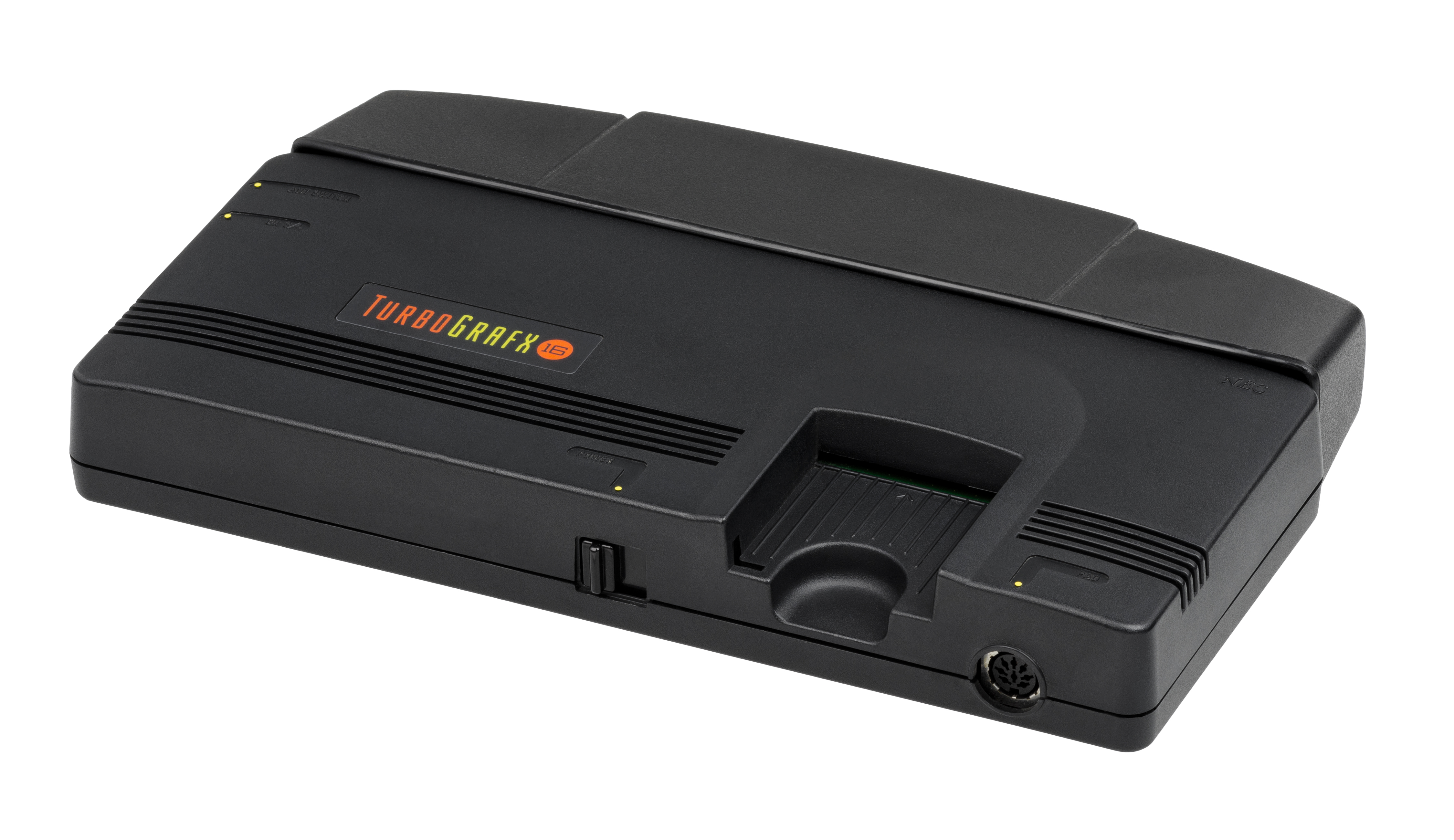 The TurboGrafx-16, a fourth generation video game console with 16-bit graphics. Released by NEC in 1989, it is the American version of the PC Engine console that was released in Japan. It retailed for $199 at launch, and faced off against the Sega Genesis that was released shortly before it. It did not do well on the North American market, coming in a distant third to Nintendo and Sega, even after multiple price drops. This photo shows the console with the rear cover in place.